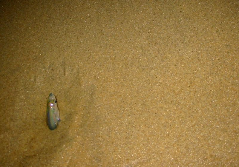 California Grunion (Leuresthes tenuis) spawning on the beach in San Diego, California, USA.